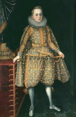 Portrait of Prince Władysław Sigismund Vasa.